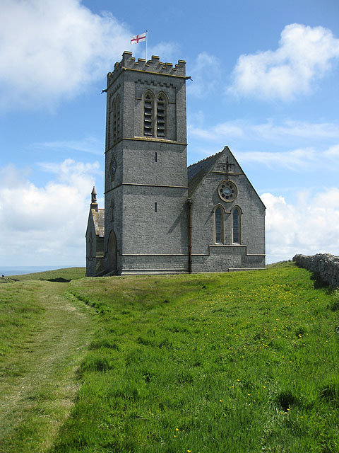 The Kingdom of Heaven The Heaven family bought the island of Lundy in 1836 and owned it until 1918. During this time it was known as 'The Kingdom of Heaven'. St Helena's Church was built on the instruction of Rev. Hudson Grosett Heaven and consecrated by the Bishop of Exeter in 1897. The church is typically Victorian and seems very out of place.